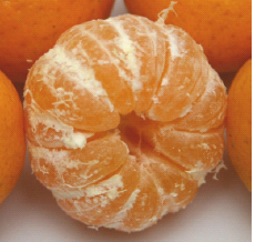 Cherry Orange